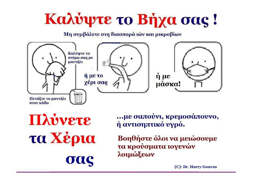 Cover your cough in greek